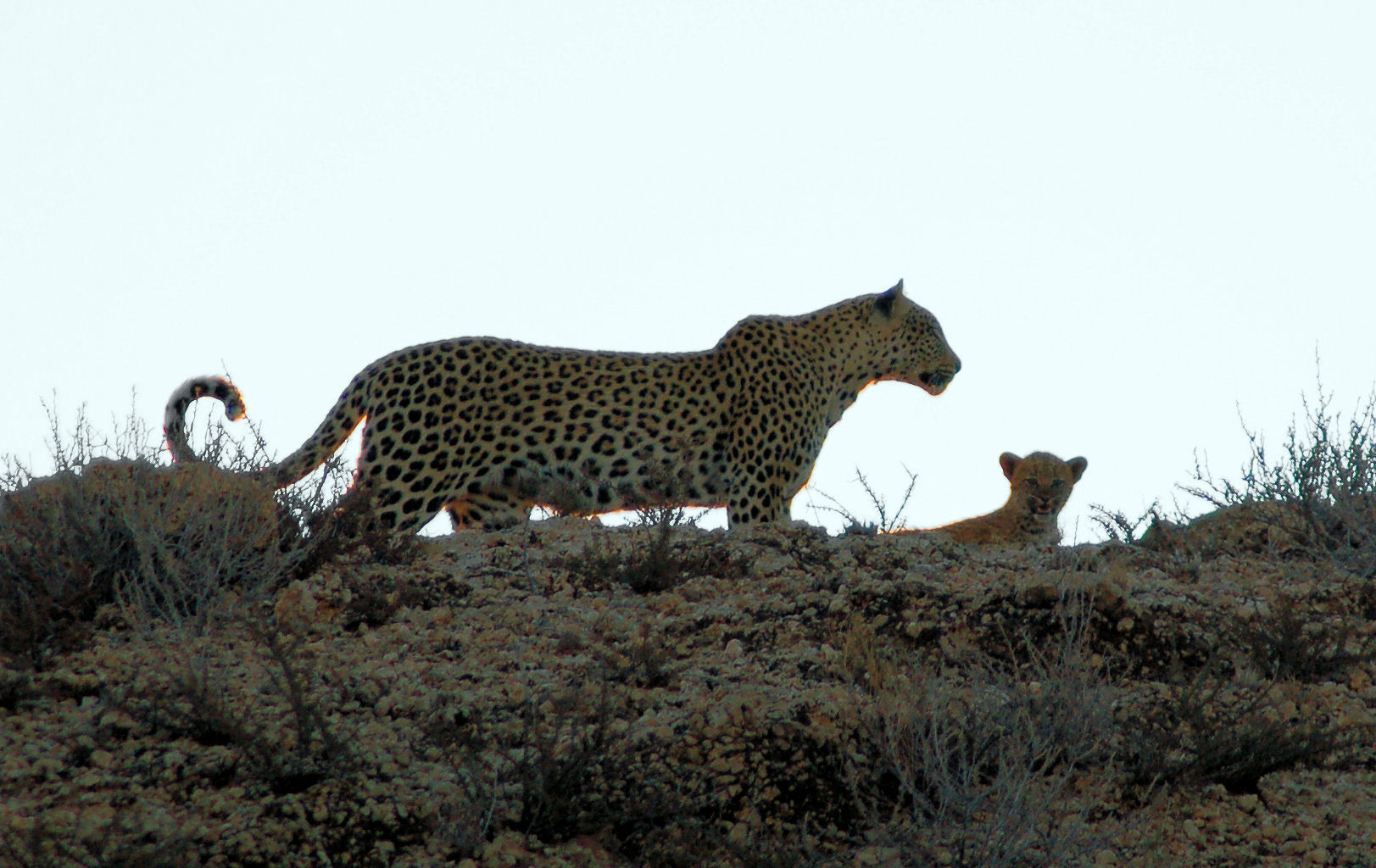 Kgalagadi National Park, South Africa